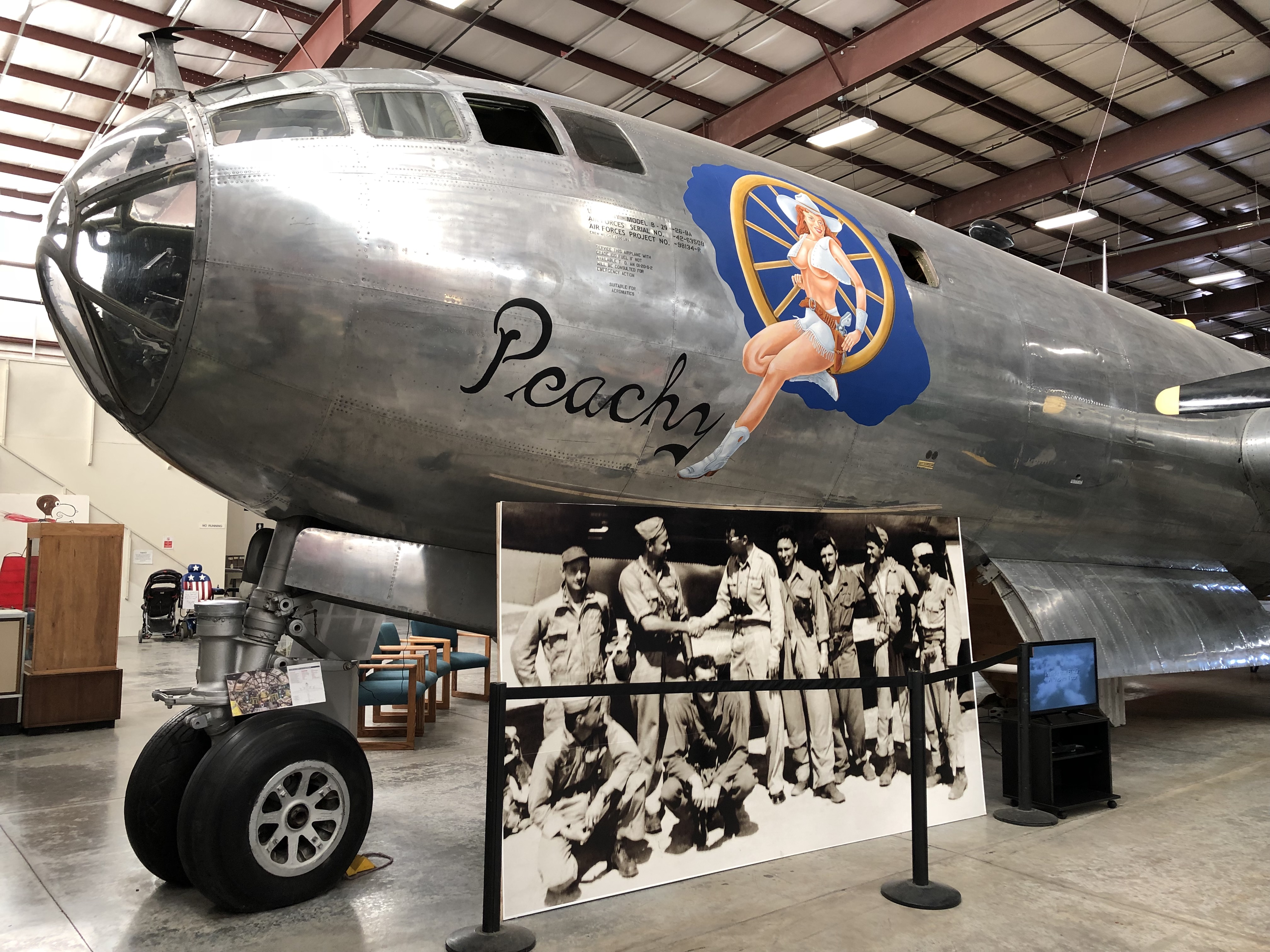 The museum’s B-29 belonged to the Navy for most of its service career and never saw combat. It was delivered to the Army Air Force as serial number 44-62022. The aircraft spent the latter days of its career on the target range at NAS China Lake, California, from 1960 to 1975. It was delivered to the museum in 1975. The B-29 at the museum is painted to resemble a B-29 that saw combat service during the Second World War with the 482nd Bombardment Squadron of the 505th Bombardment Group, 20th Air Force. The original “Peachy” flew 35 combat missions over Japan, flying from Tinian and the Marianas. For many of those missions, Peachy was originally flown by Pueblo native and Distinguished Service Cross recipient, Captain Robert T. Haver. Peachy was lost, along with her entire crew, over Tokyo during a nighttime incendiary bombing raid on 25 May 1945. Captain Haver and her original crew were not onboard.